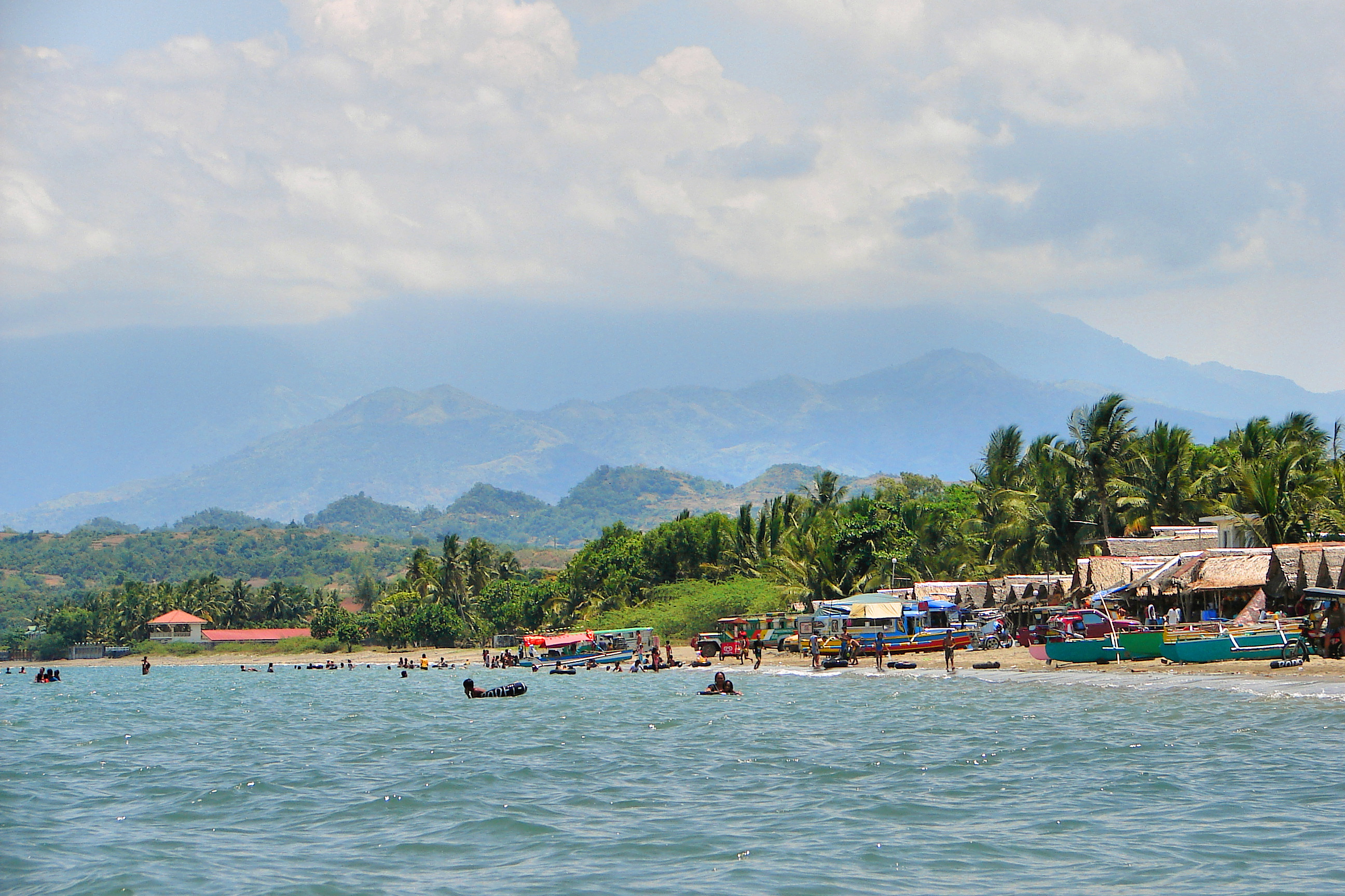 Waterfront (Lingayen Gulf) of San Fabian, Pangasinan, Philippines